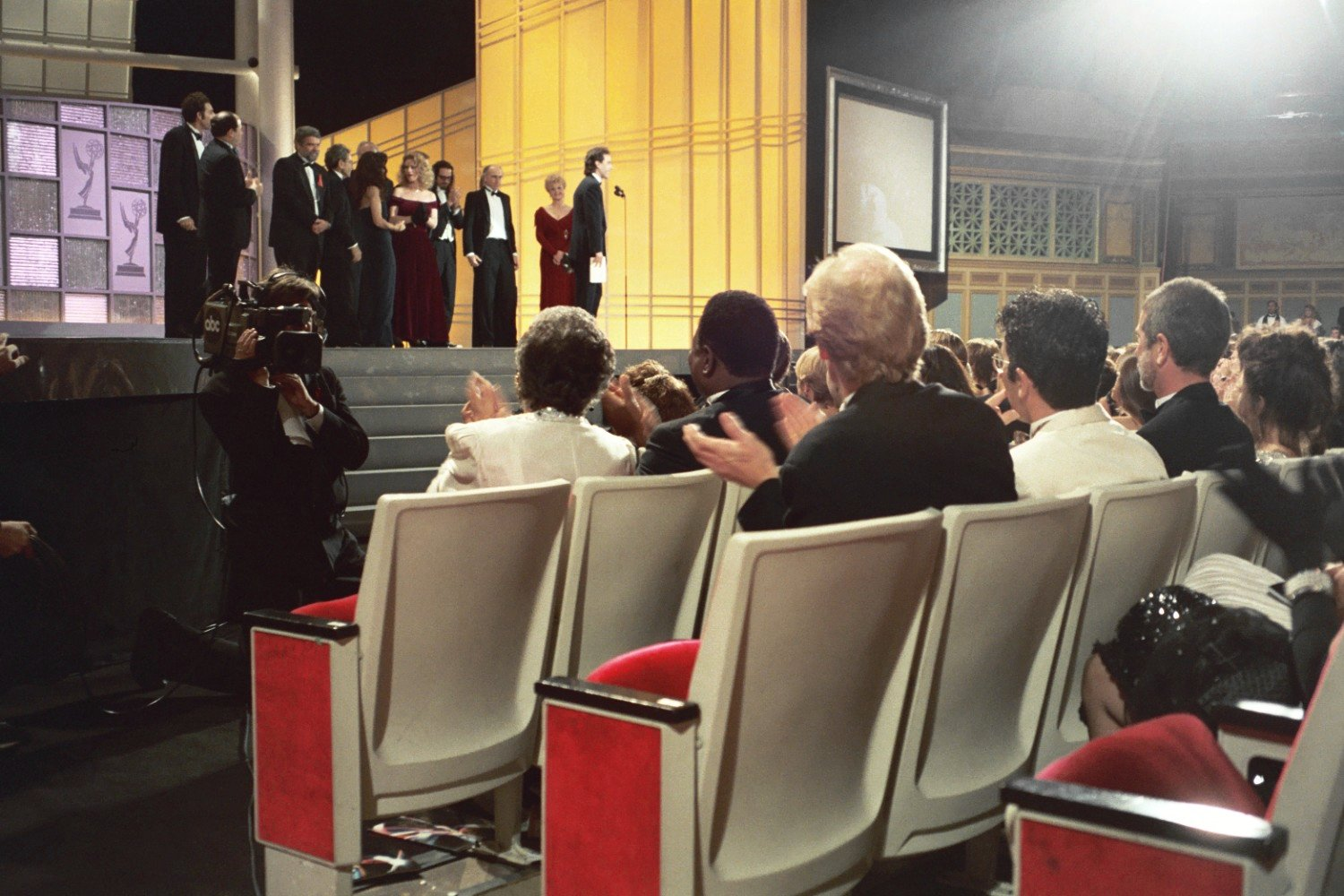 A very rare photo taken DURING the telecast, from the 5th row. The cast of Seinfeld had just won for "The Contest" and had left their seats (the empty seats you see) to go up on stage - They won for "The Contest" episode. I was temporarily filling an empty seat and sneaked out my camera to take this picture. (Photography is strictly prohibited.) The woman in white being photographed by the TV cameraman is Jerry Seinfeld's mother, Betty. He was sitting next to her in the audience. Photo taken at the 45th Emmy Awards 9/19/93 - Permission granted to copy, publish or post but please credit "photo by Alan Light" if you can